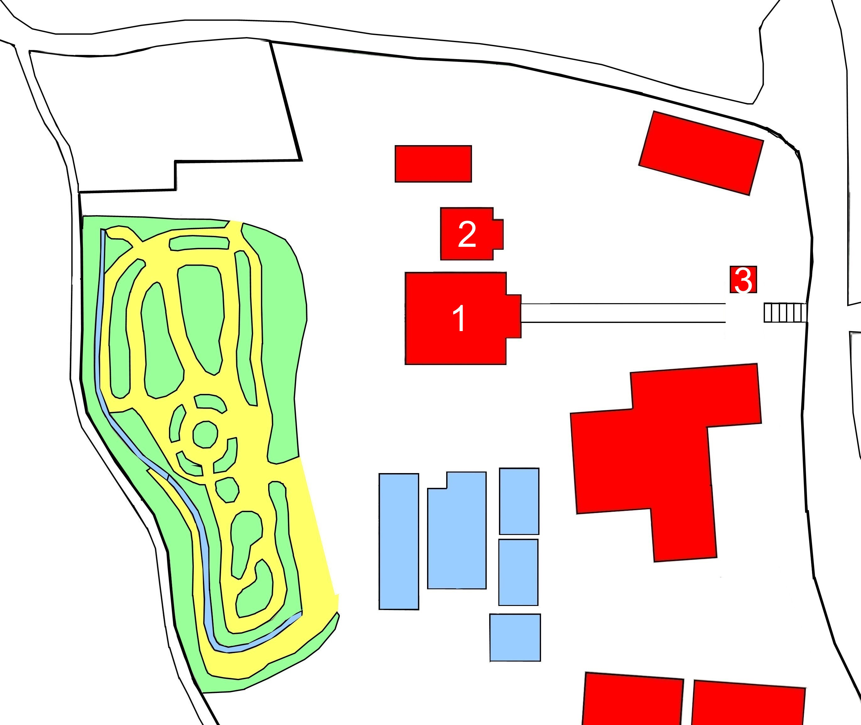 Layout of Jōruri-ji (Matsuyama) temple, Japan